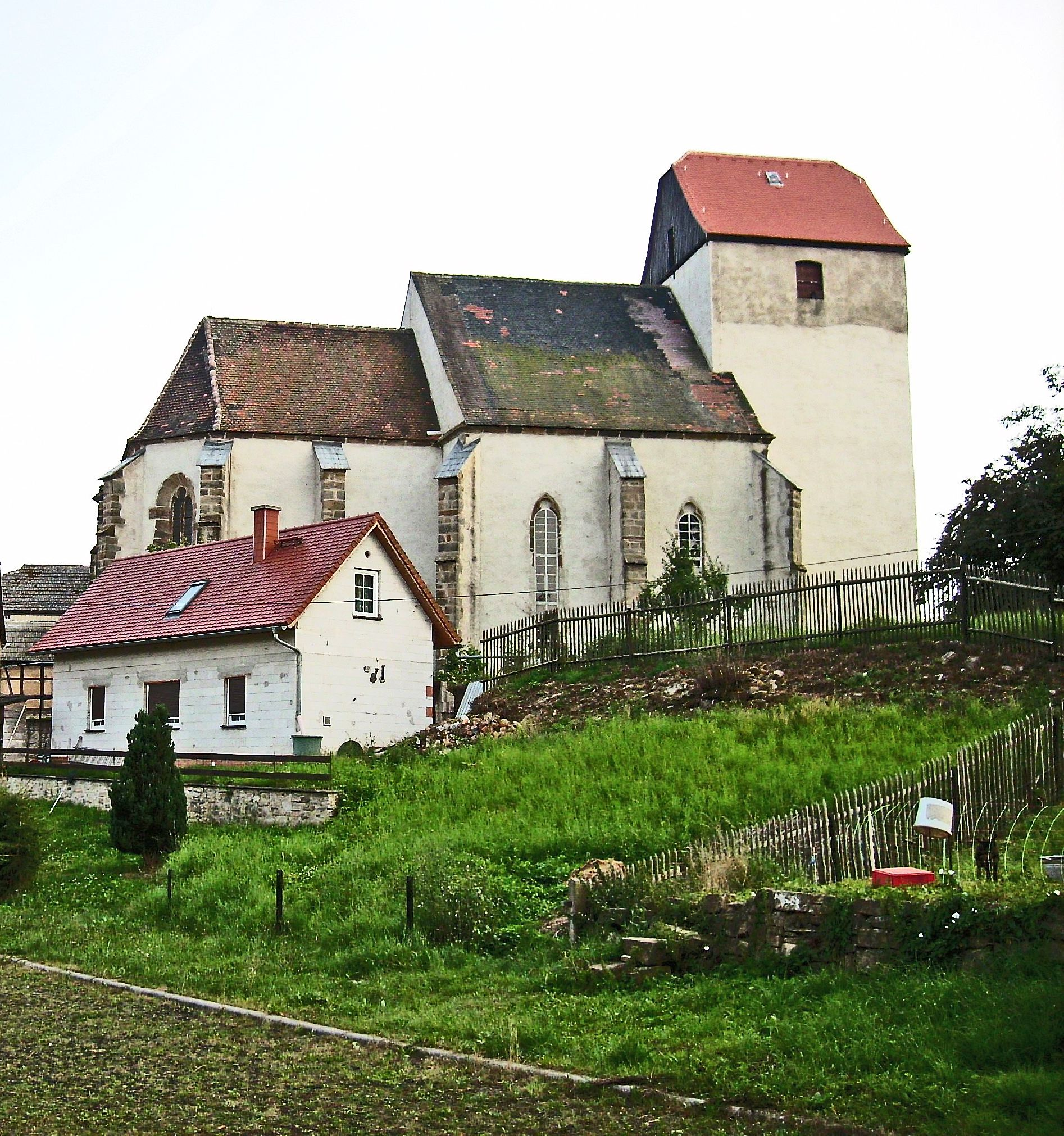 Church of the village of Pötewitz (Wetterzeube, district of Burgenlandkreis, Saxony-Anhalt)